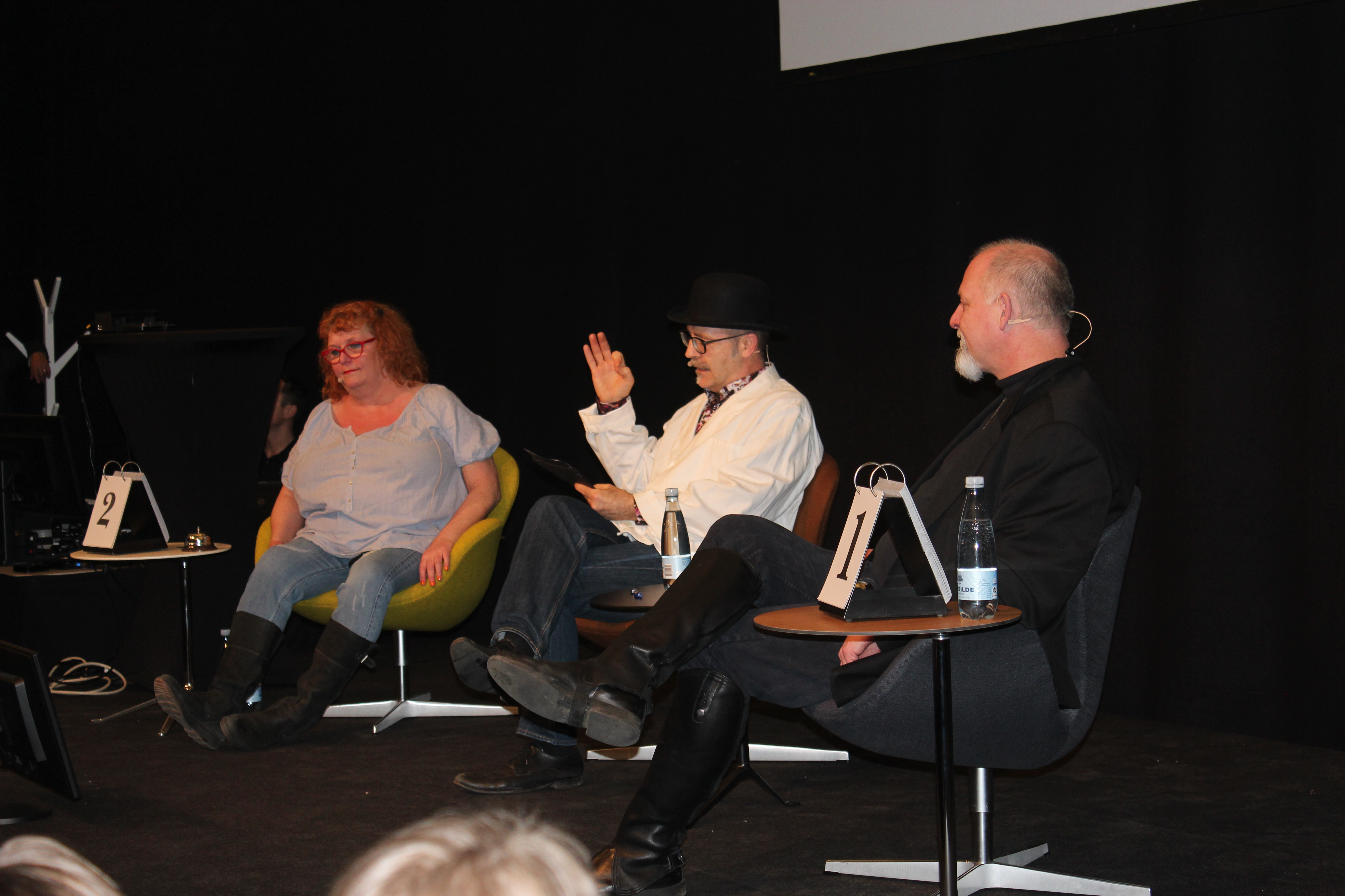 Historiequizzen (The History Quiz) with (left to right) Hanne Fabricius, Adrian Hughes and Kåre Johannessen. At Historiske Dage 2015 in Øksnehallen, Copenhagen.